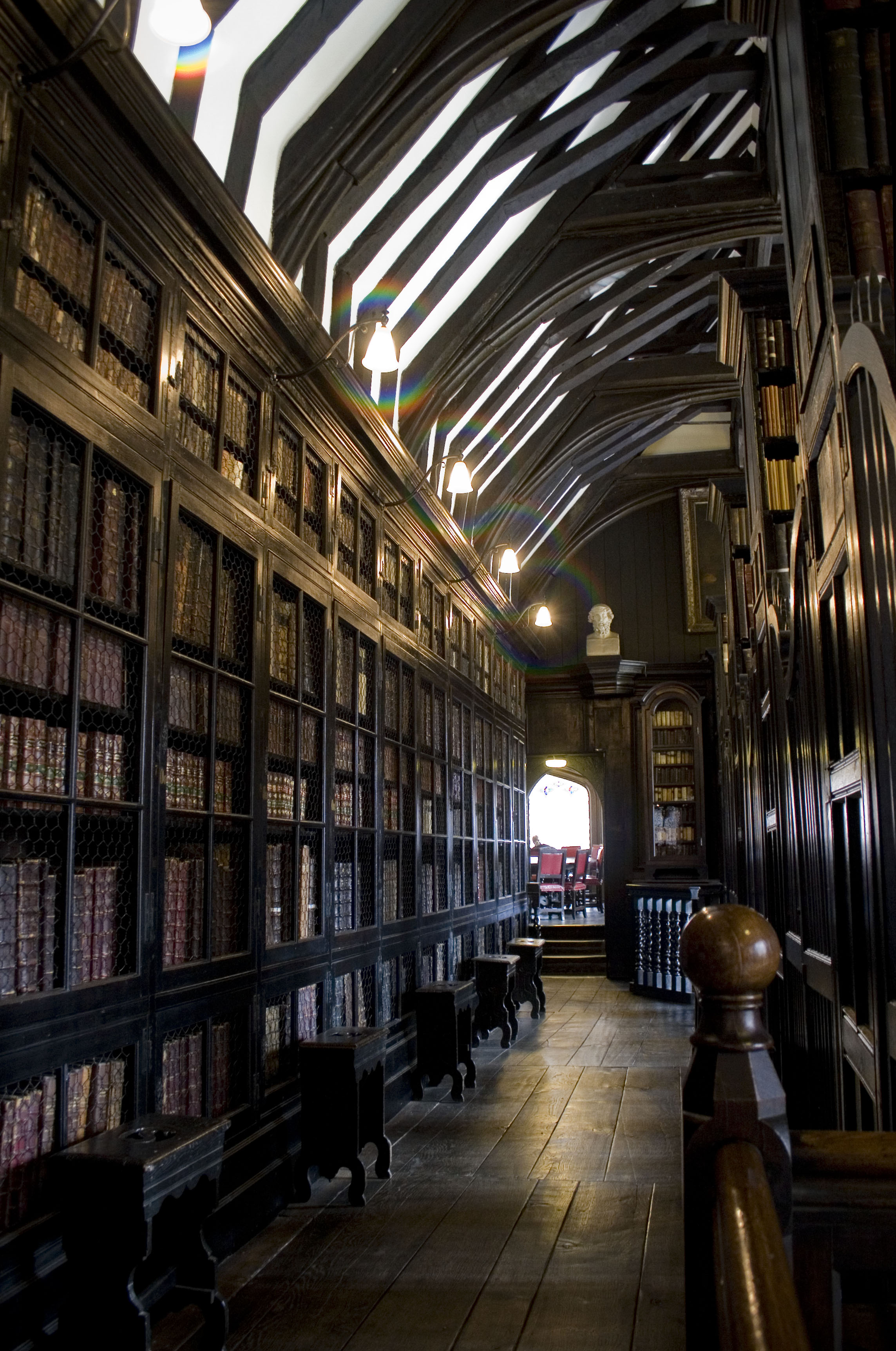 One of the aisles inside Chetham's Library, in Manchester.